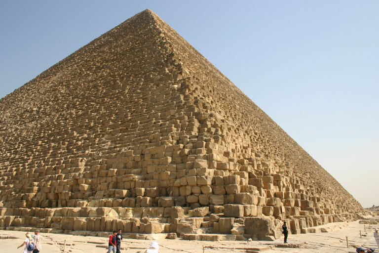 Picture of the Great Pyramid (Kheops pyramid).